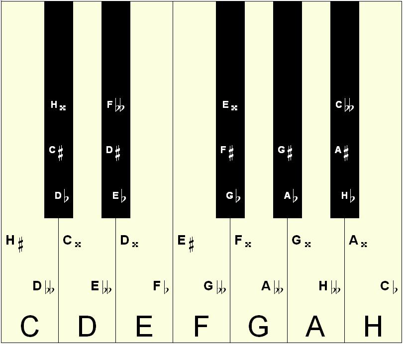 Keyboard with all conventional tone names. note: H = B in some languages, and therefore B (german) is B-flat (english) graphics: Ziga 08:29, 10 December 2006 (UTC)